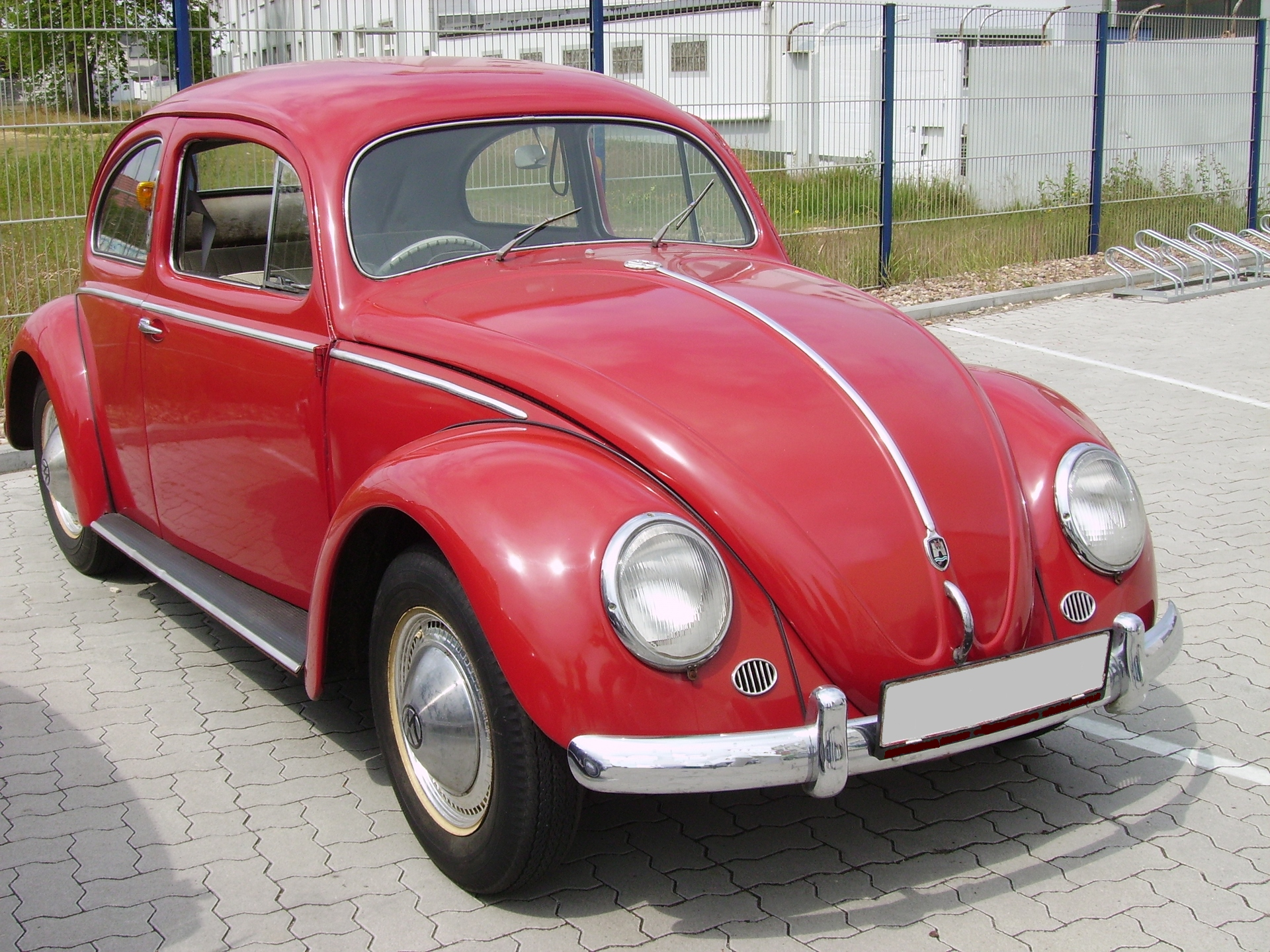 A Volkswagen Beetle probably from 1956 with right-hand drive and turn signals in the middle